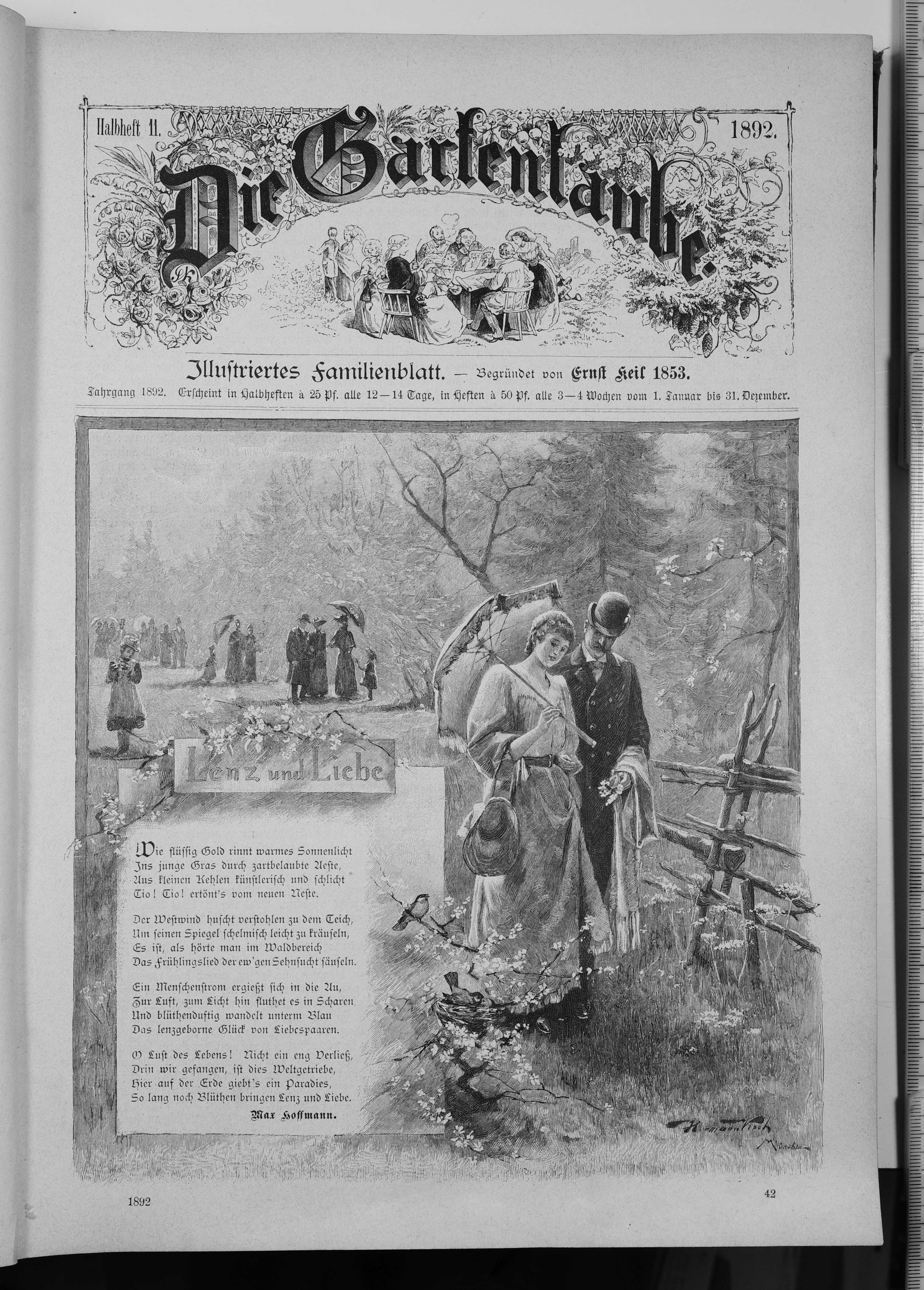 Page 325 from journal Die Gartenlaube for 1892. Extracted image (if any): File:Die Gartenlaube (1892) b 325.jpg - hi res, ~2.5 MB.